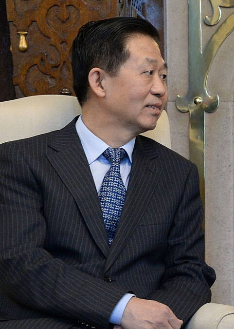 Xiao Jie at the Casa Rosada